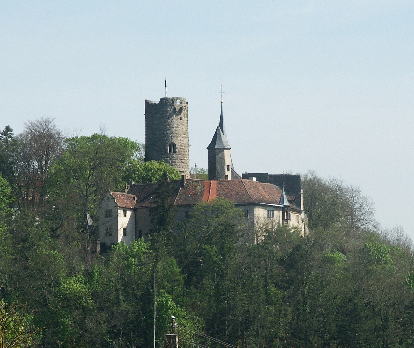 Burg Krautheim, Baden-Württemberg, Germany